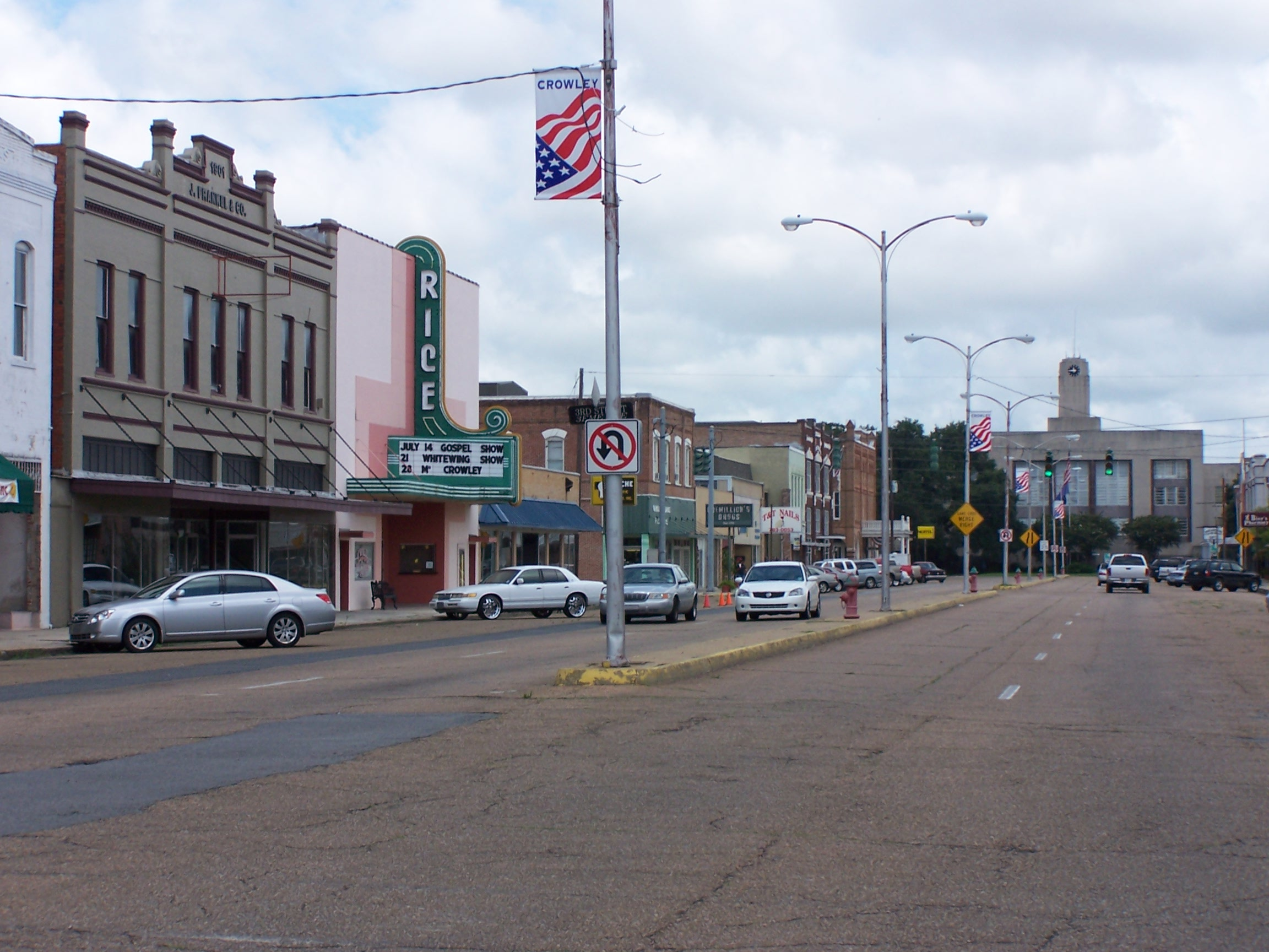 Downtown Crowley, Louisiana